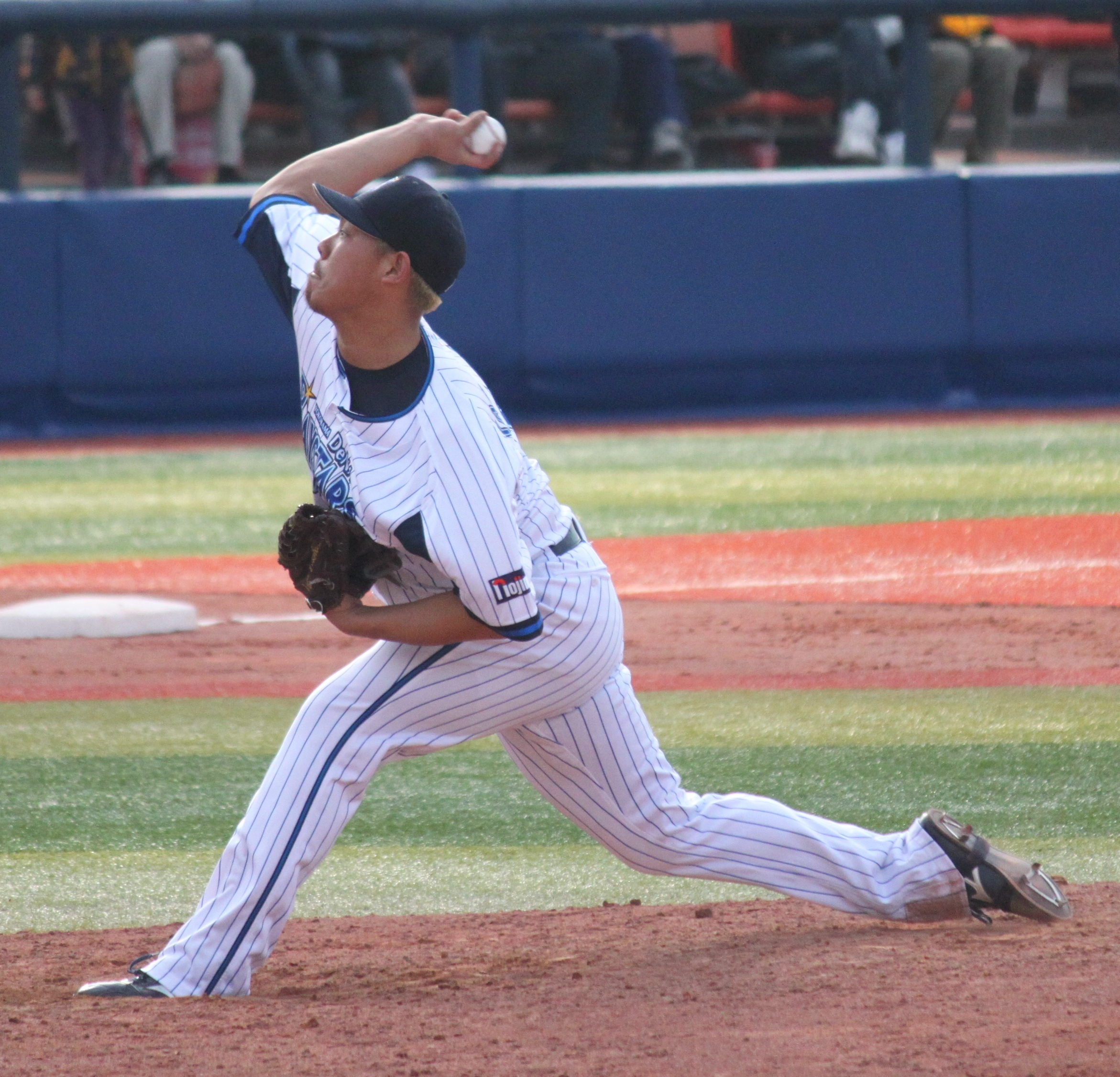 Shun Yamaguchi, pitcher of the Yokohama DeNA BayStars, at Yokohama Stadium.